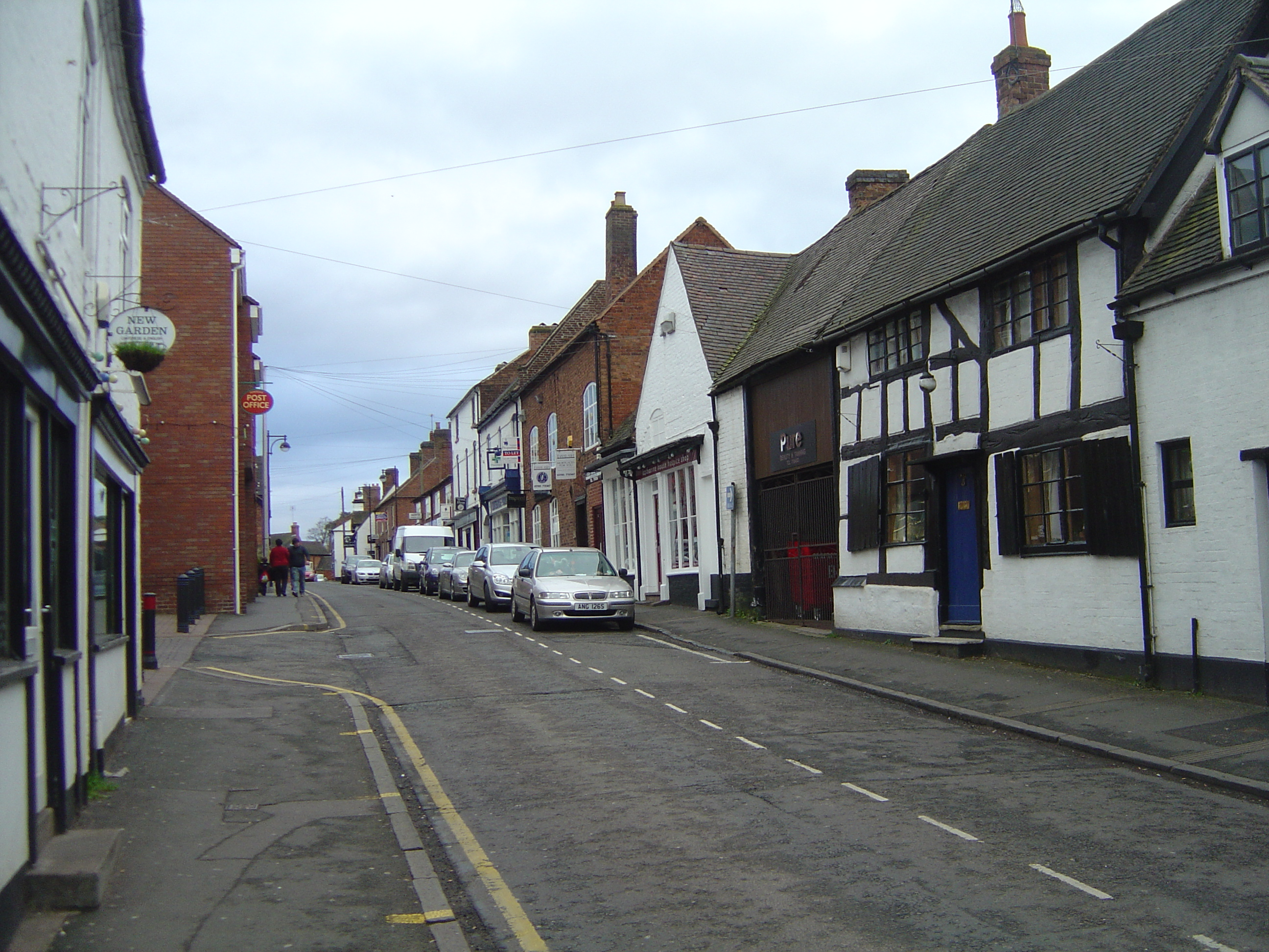 Penkridge, England